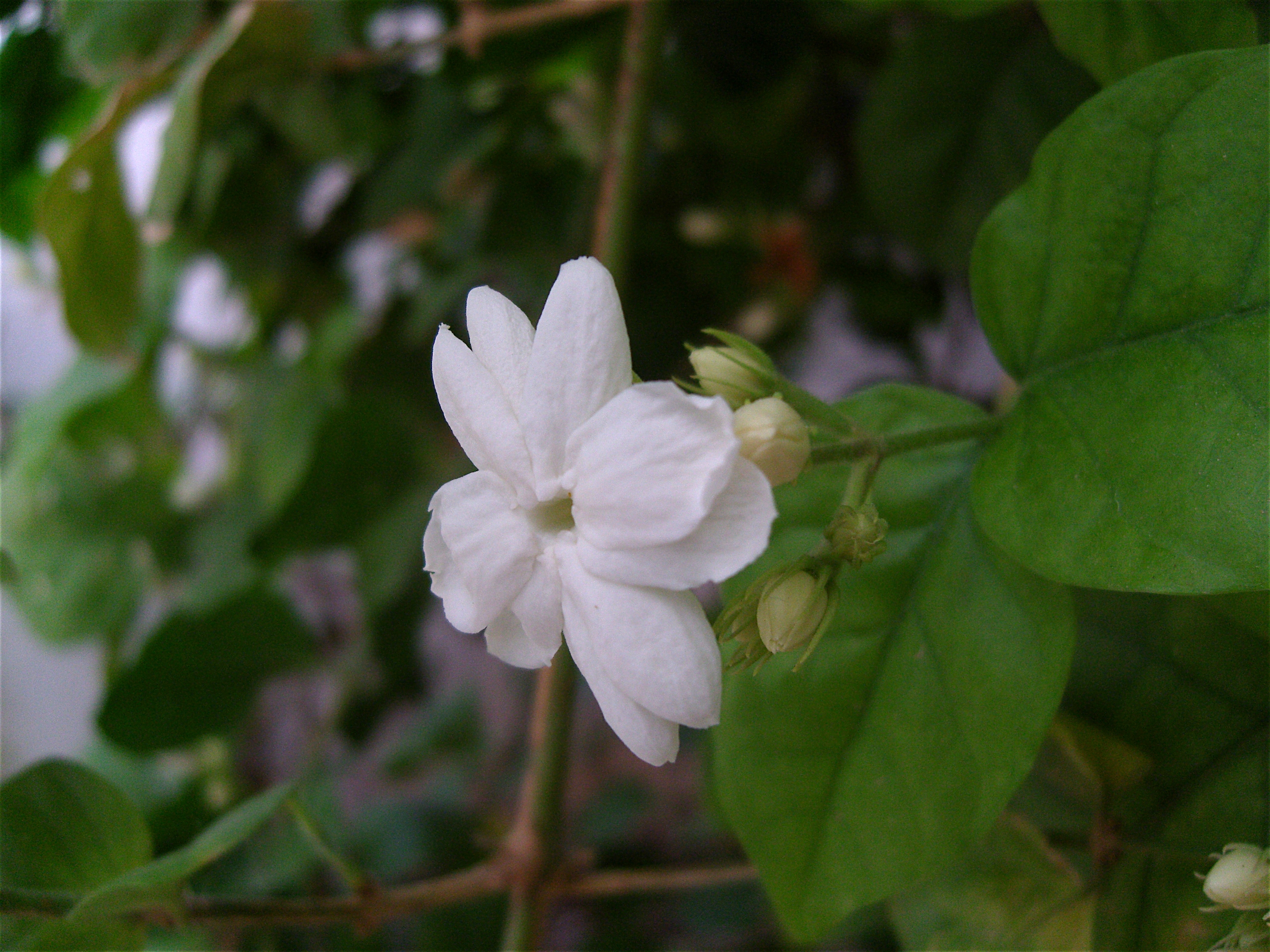 Arabian jasmin (Jasminum sambac 'Maid Of Orleans') from my personal garden (location : Sayada - Tunisia)